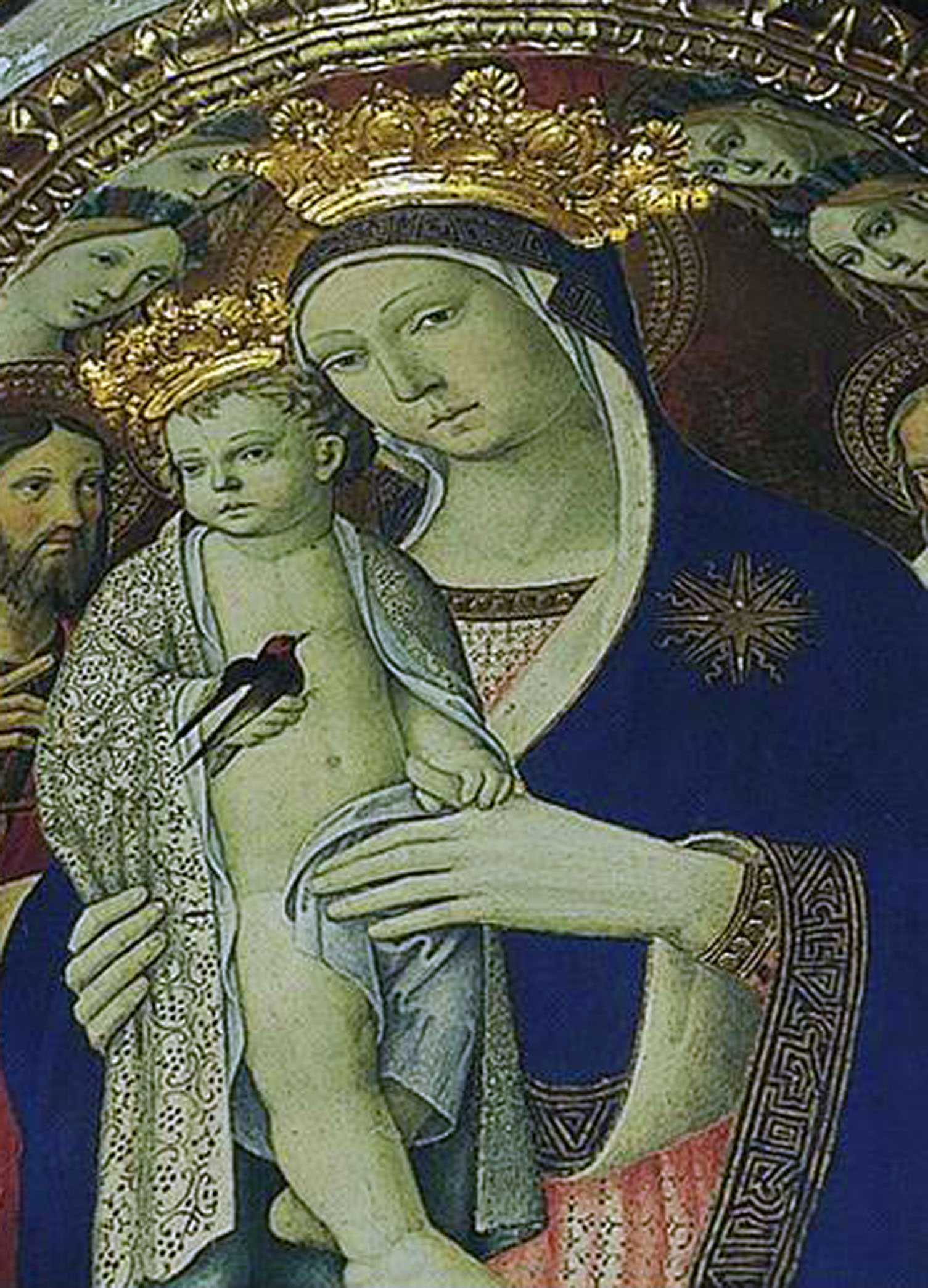 Madonna col Bambino (Castel del Piano)